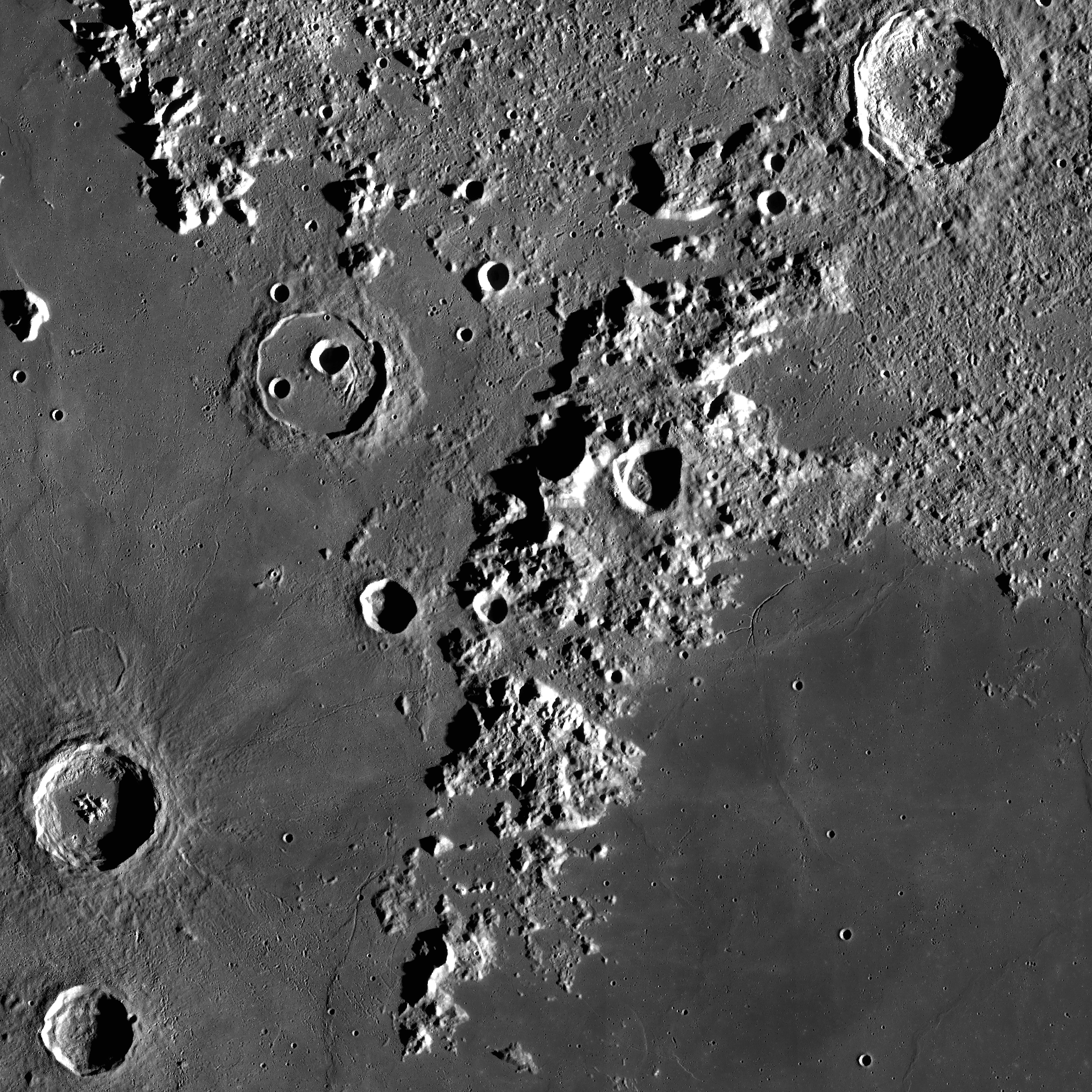 Montes Caucasus on the Moon. Mosaic of photos by Lunar Reconnaissance Orbiter, made with Wide Angle Camera. Size of the image is 470×470 km, north is up. The image has the same span and resolution as an elevation map Montes Caucasus (GLD100).gif.